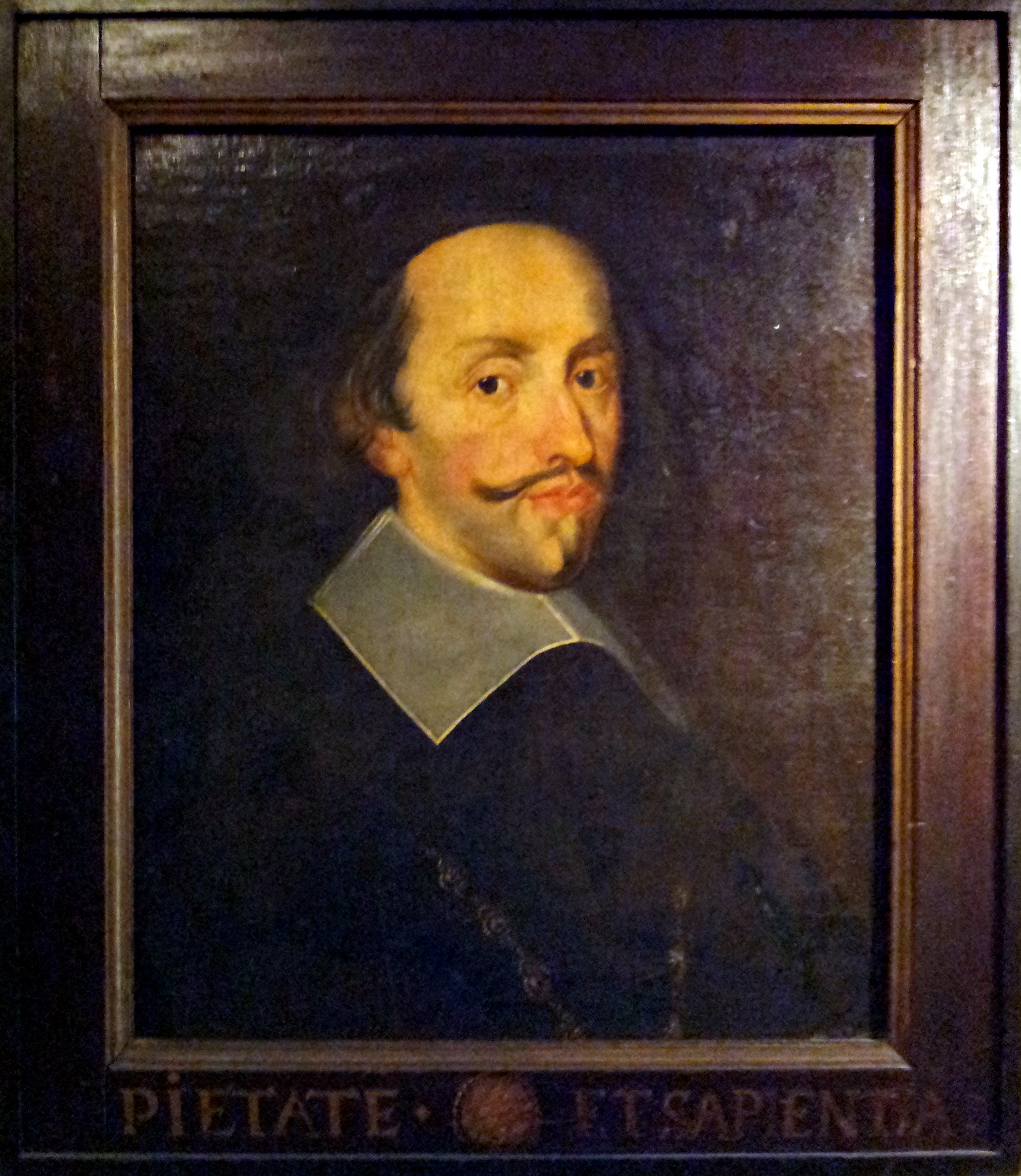 Portrait of prince-bishop Maximilian Henry of Bavaria (1650-1688).